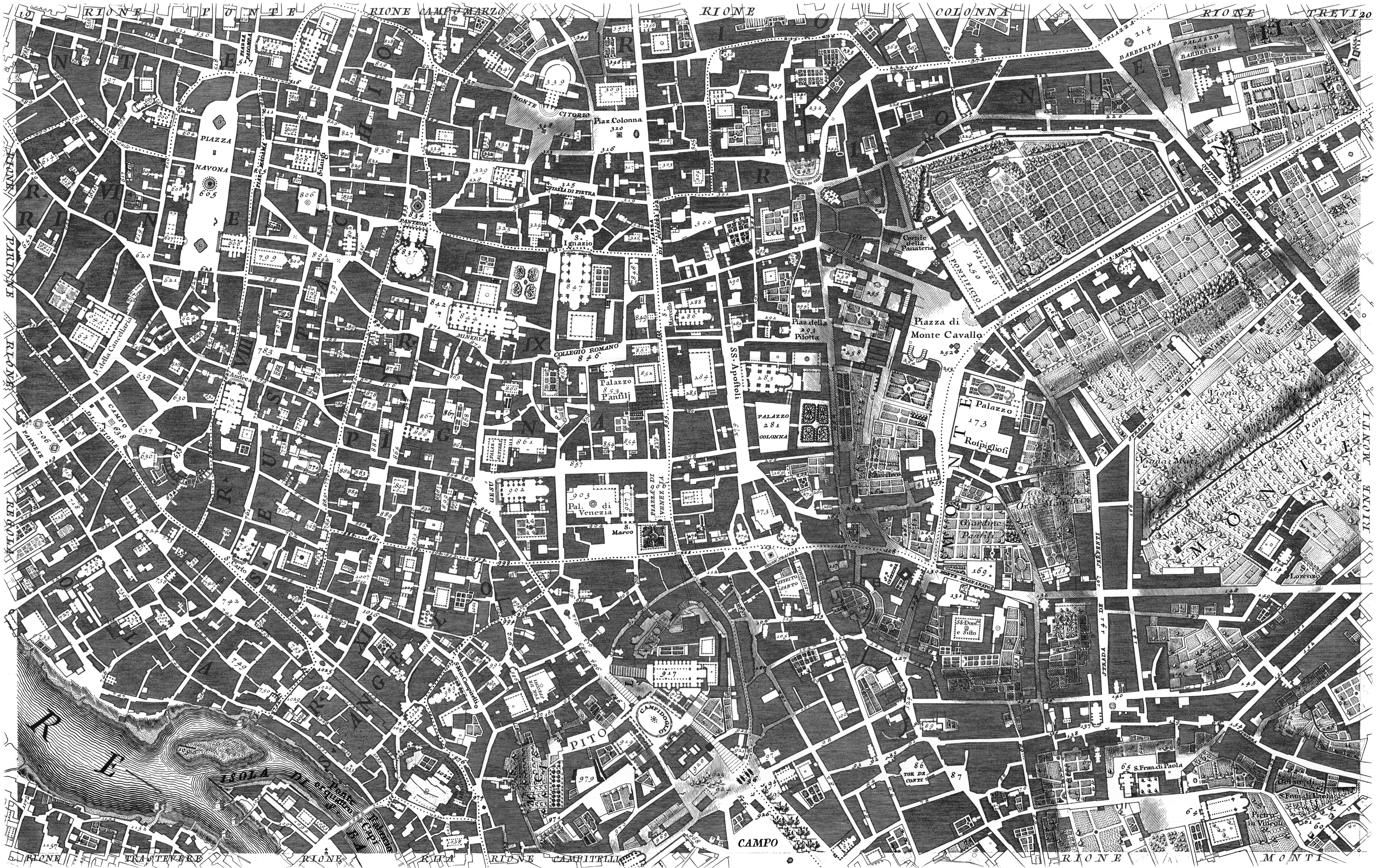 The New Plan of Rome by Giambattista Nolli part 5/12